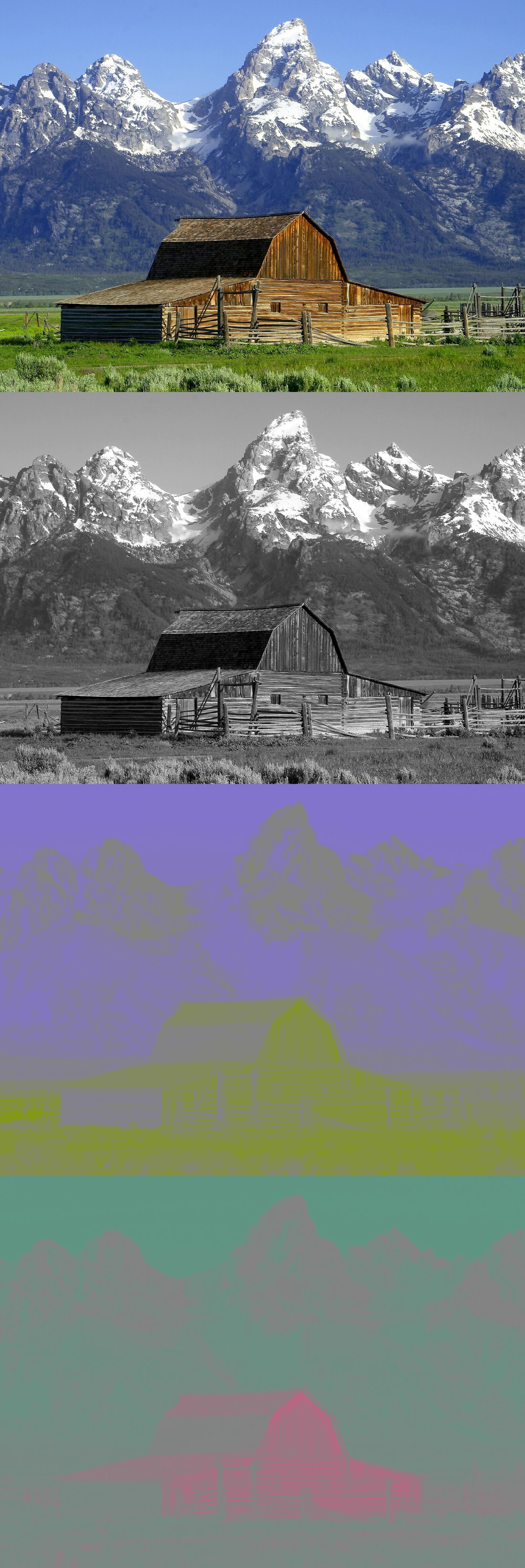 This takes an image (Image:Barns grand tetons.jpg) and displays the Y, Cb and Cr elements of it. Note that the Y image is essentailly a greyscale copy of the main image; that the white snow is represented as a middle value in both Cb and Cr; that the brown barn is represented by strong Cb and strong Cr; that the green grass is represented by strong Cb and weak Cr; and that the blue sky is represented by weak Cb and weak Cr. The murkiness of the Cb and Cr elements (to the human eye) demonstrate why many image compression codecs downsample colour; details in Y are much more visible than in Cb or Cr.